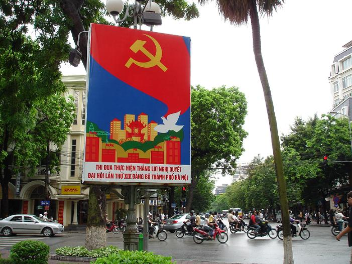 Propaganda poster in Hanoi, Vietnam.